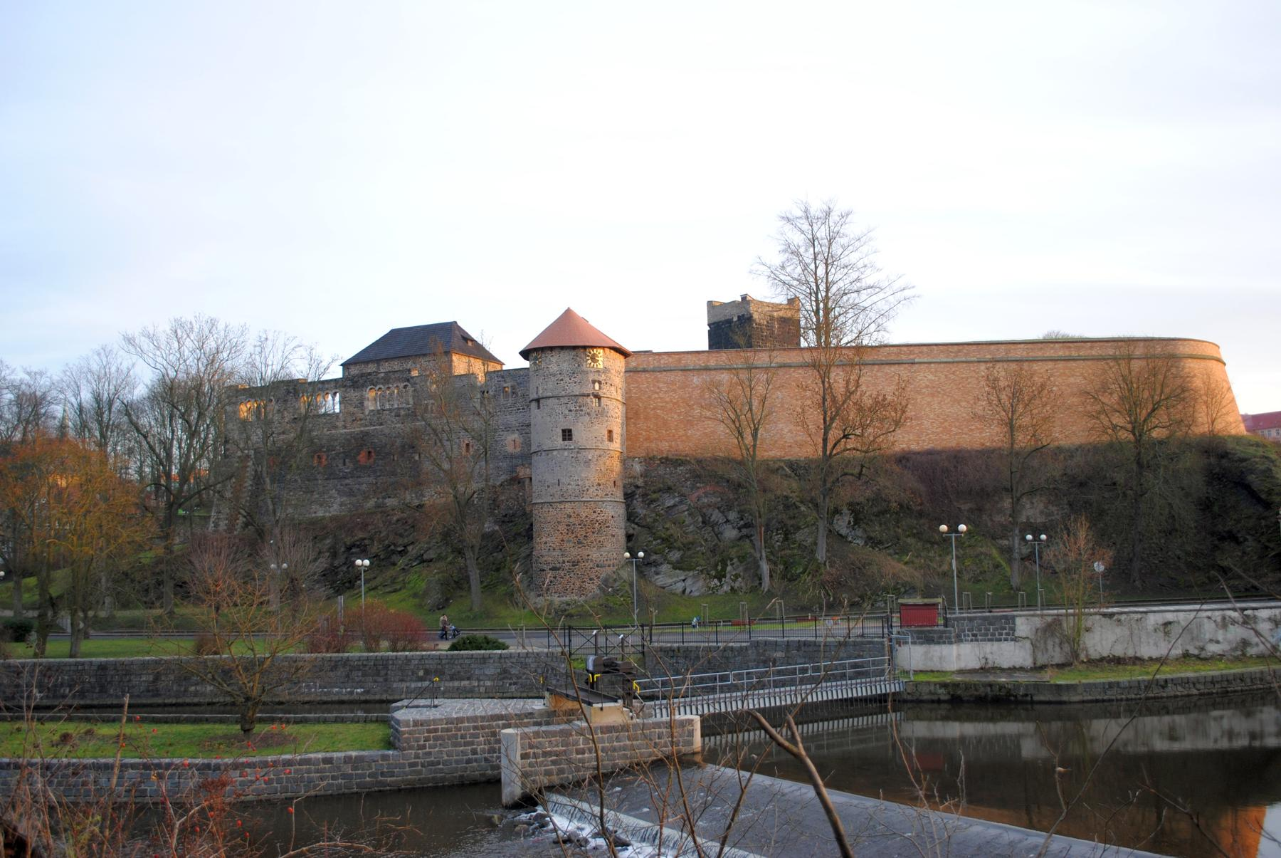 Castle photographed in Eger (Cheb) from the river